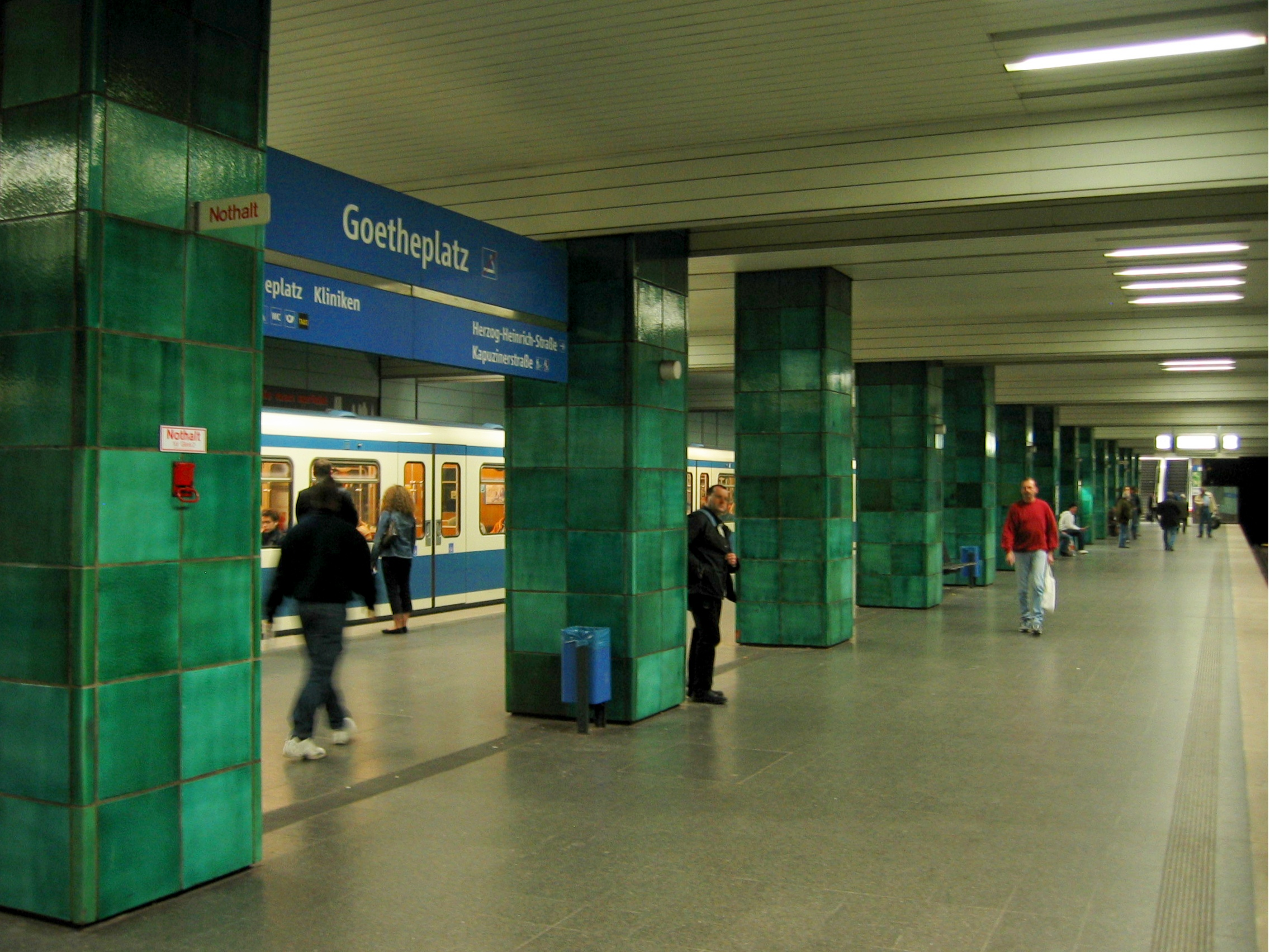 Munich subway station Goetheplatz (U6)